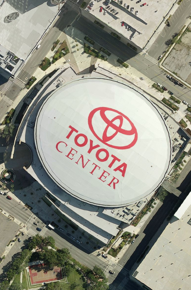 Toyota Center satellite view, nasa world wind